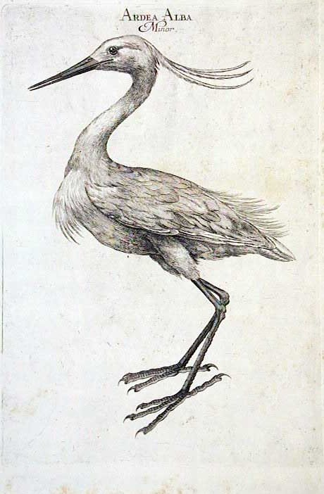 Ardea Alba in „Danubius Pannonico-Mysicus. Observationibus geographicis, astronomicis, hydrographicis, historicis, physicis perlustratus”